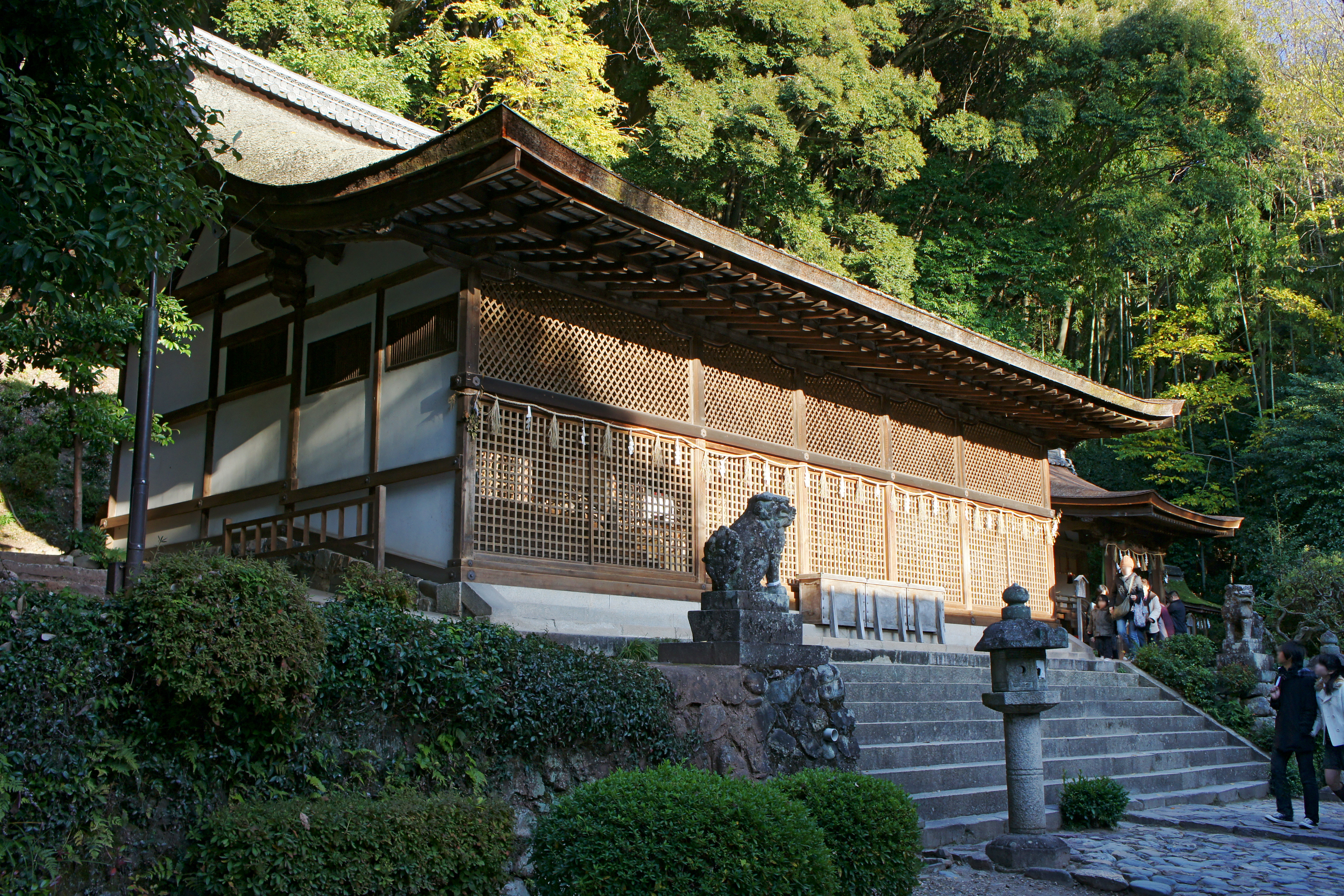 Ujigami-jinja's Main Shrine (Japan's National Treasure) in Uji, Kyoto prefecture, Japan. Ujigami-jinja was registered as part of the UNESCO World Heritage Site "Historic monuments of ancient Kyoto".